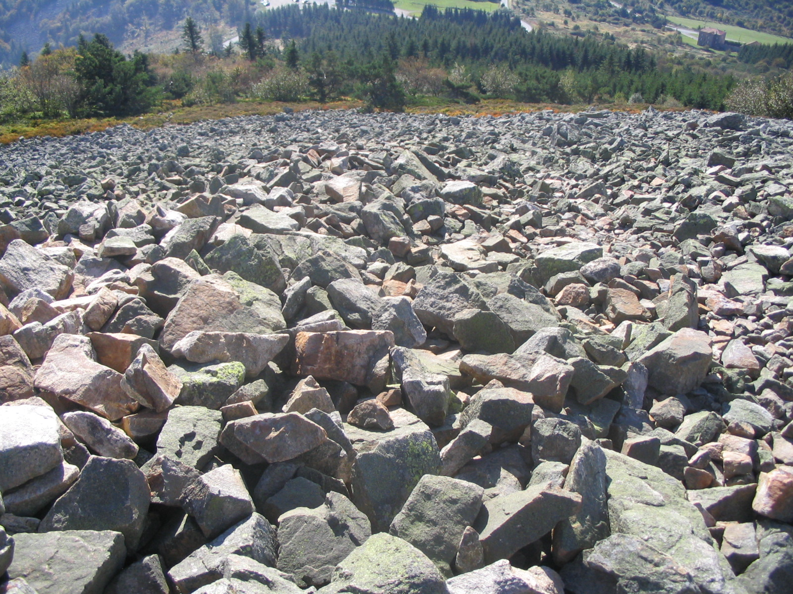 Chirat_mont_pilat